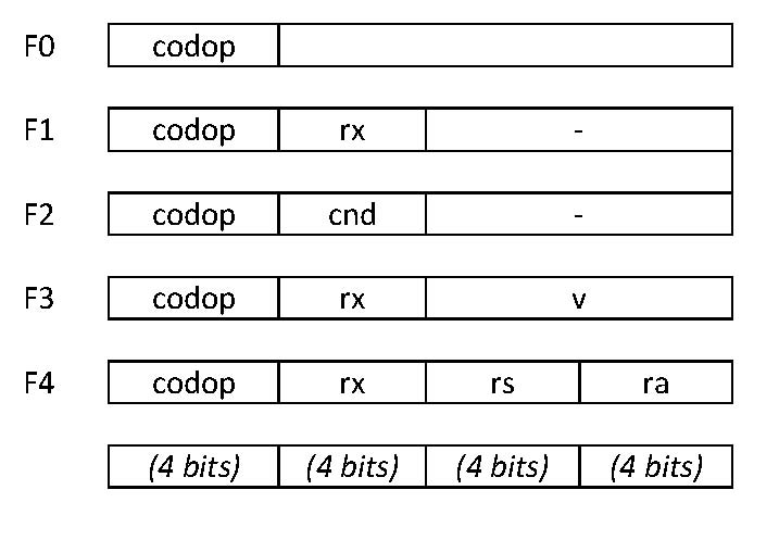 Instruction formats of CODE2